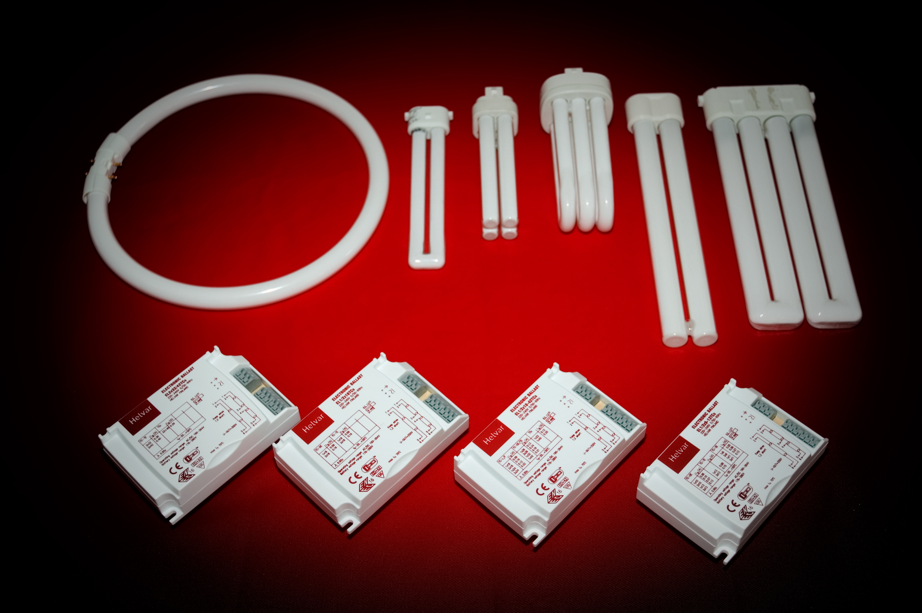 Compact luminescent lamps with ballasts for them